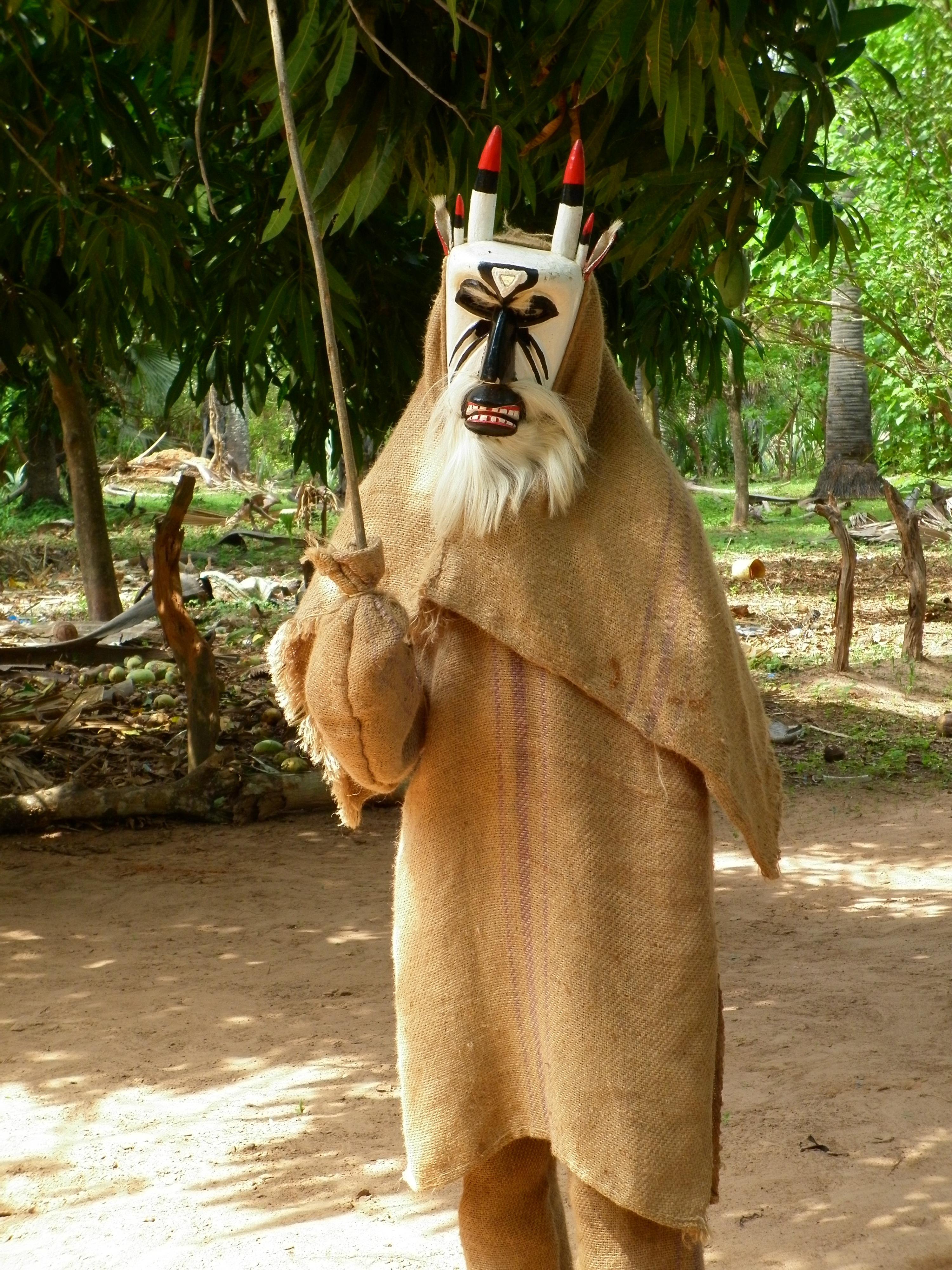 The Kumpo, the Samay and the Niasse are three mythological persons of the Diola culture in the Casamance (Senegal)